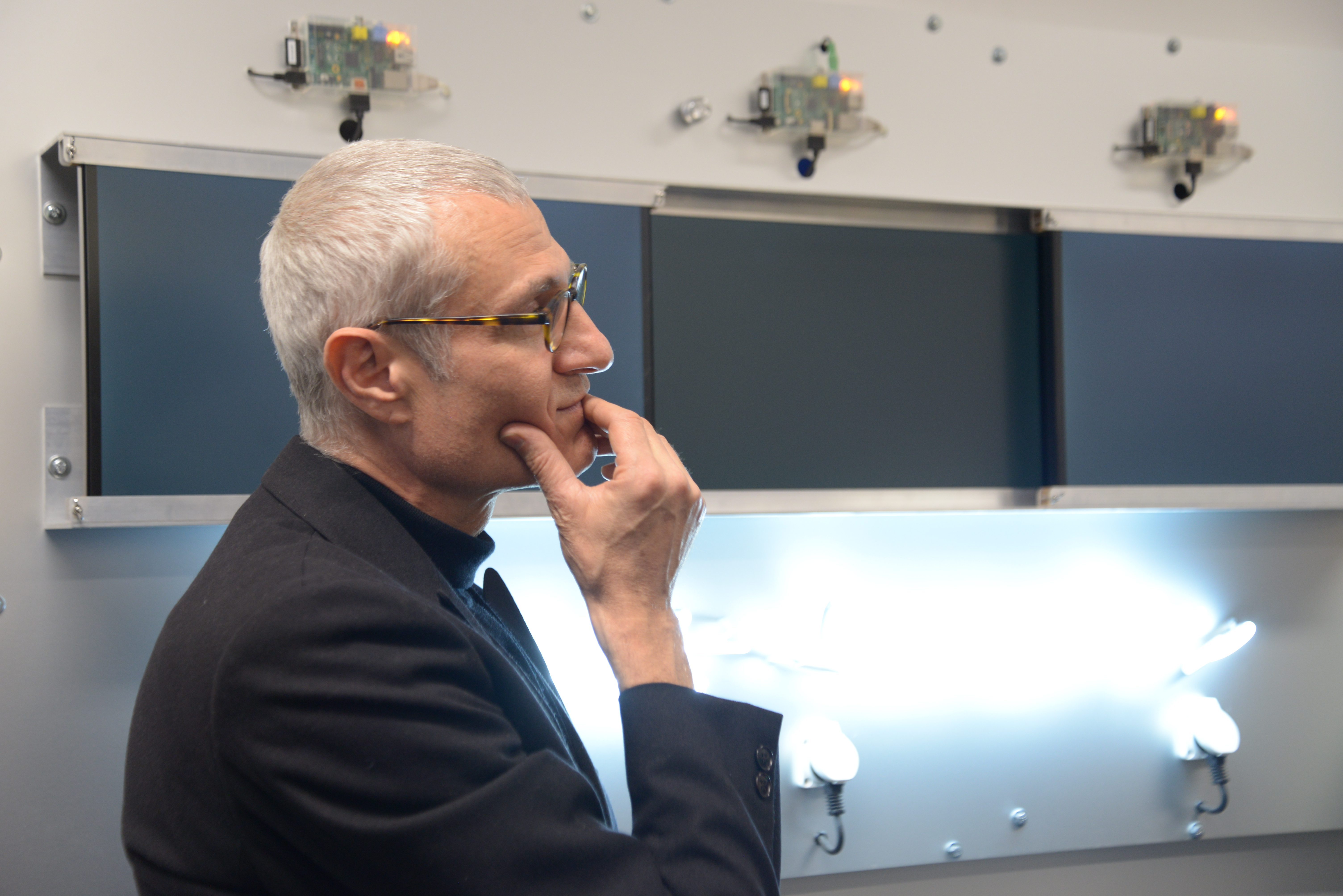 Costantino Ciervo at his exhibition opening, Ortner & Ortner Depot, Berlin, April 2019